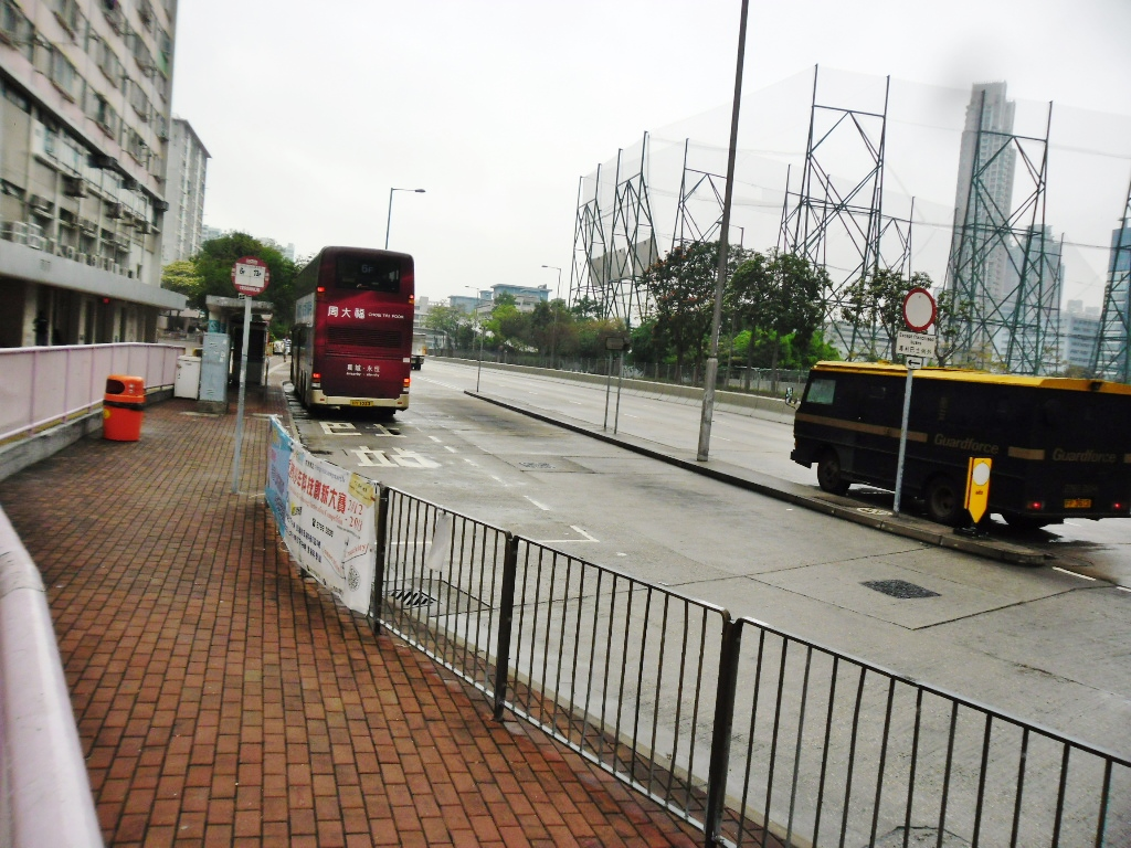 Lai Kok Bus Terminus, Sham Shui Po District